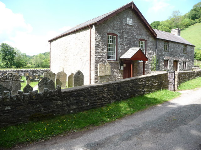 Tabernacle Baptist Chapel, and attached manse, Cymyoy, Monmouthshire